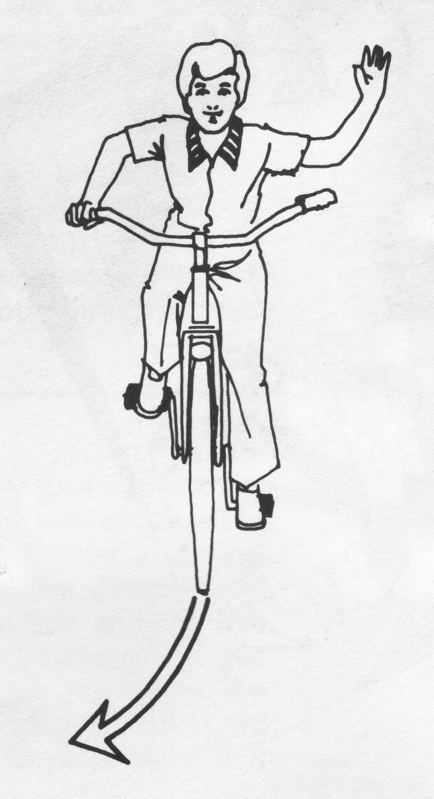 Diagram showing a right turn signal as used in the United States